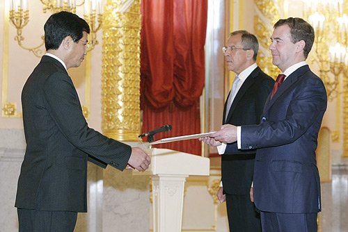 THE KREMLIN, MOSCOW. Presentation by foreign ambassadors of their letters of credence. Ambassador of the People’s Democratic Republic of Laos Somphone Sichaleune presents his letter of credence to the President of Russia.